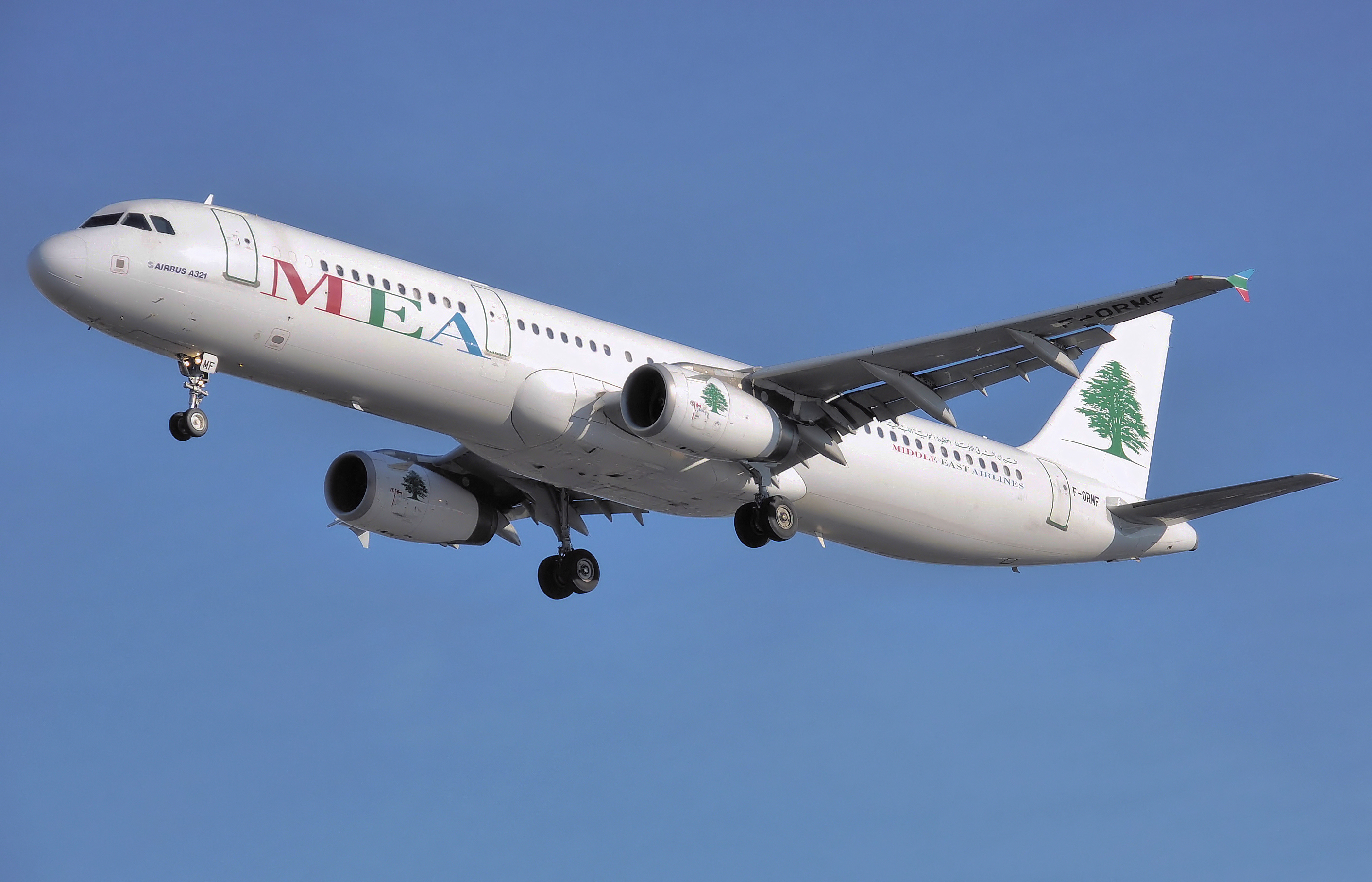 MEA Airbus A321-200 (F-ORMF) lands at London Heathrow Airport, England.